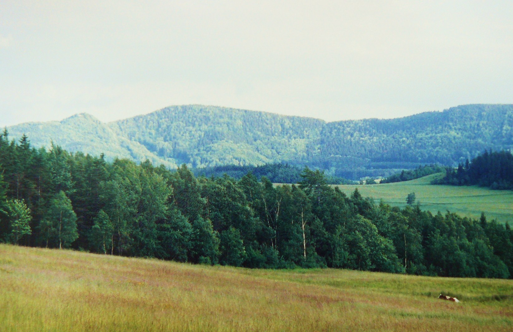 Rybnicki Grzbiet in Walbrzyskie Mountines from Kamionka. 1993.